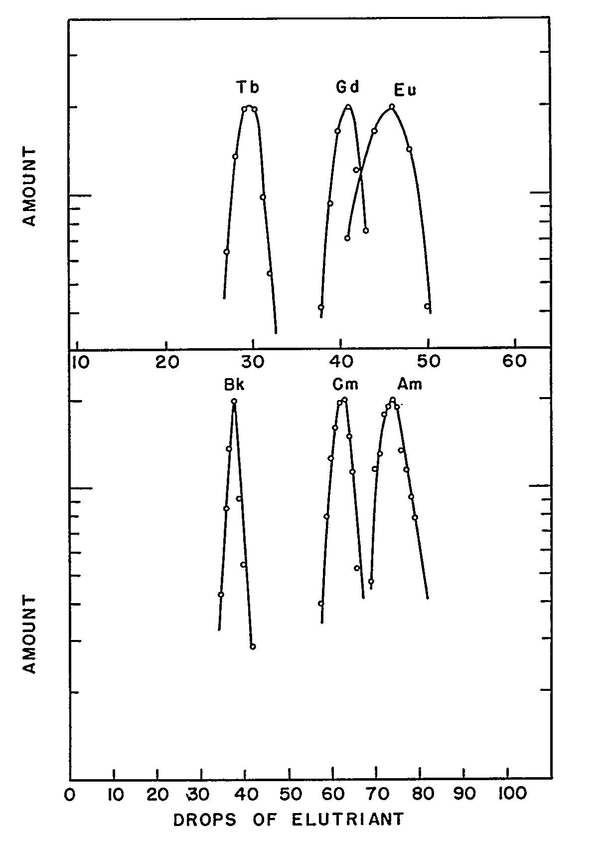 Elutionkurves Tb Gd Eu and Bk Cm Am